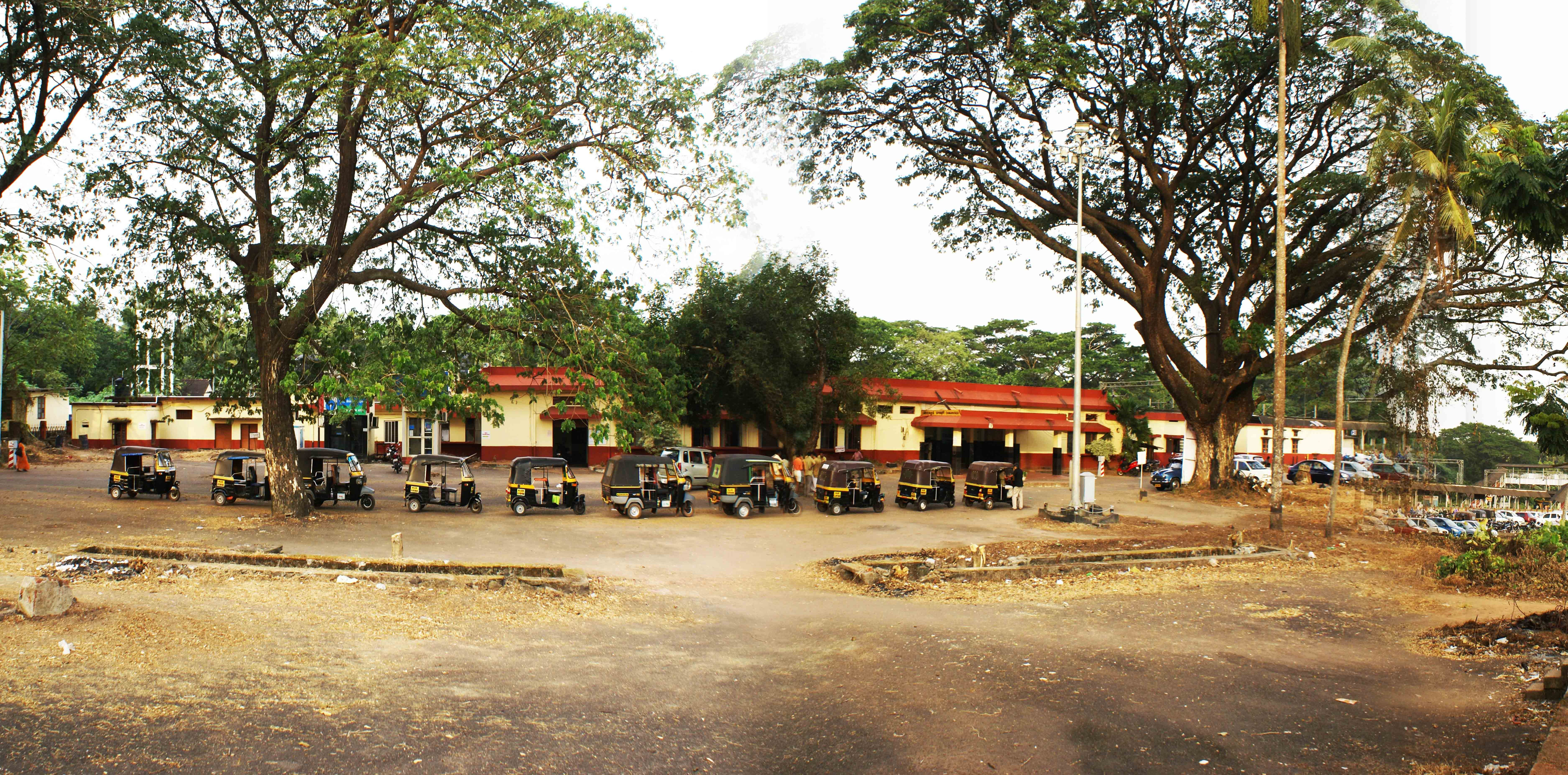 Changanassery Railway Station Main Building -- long view